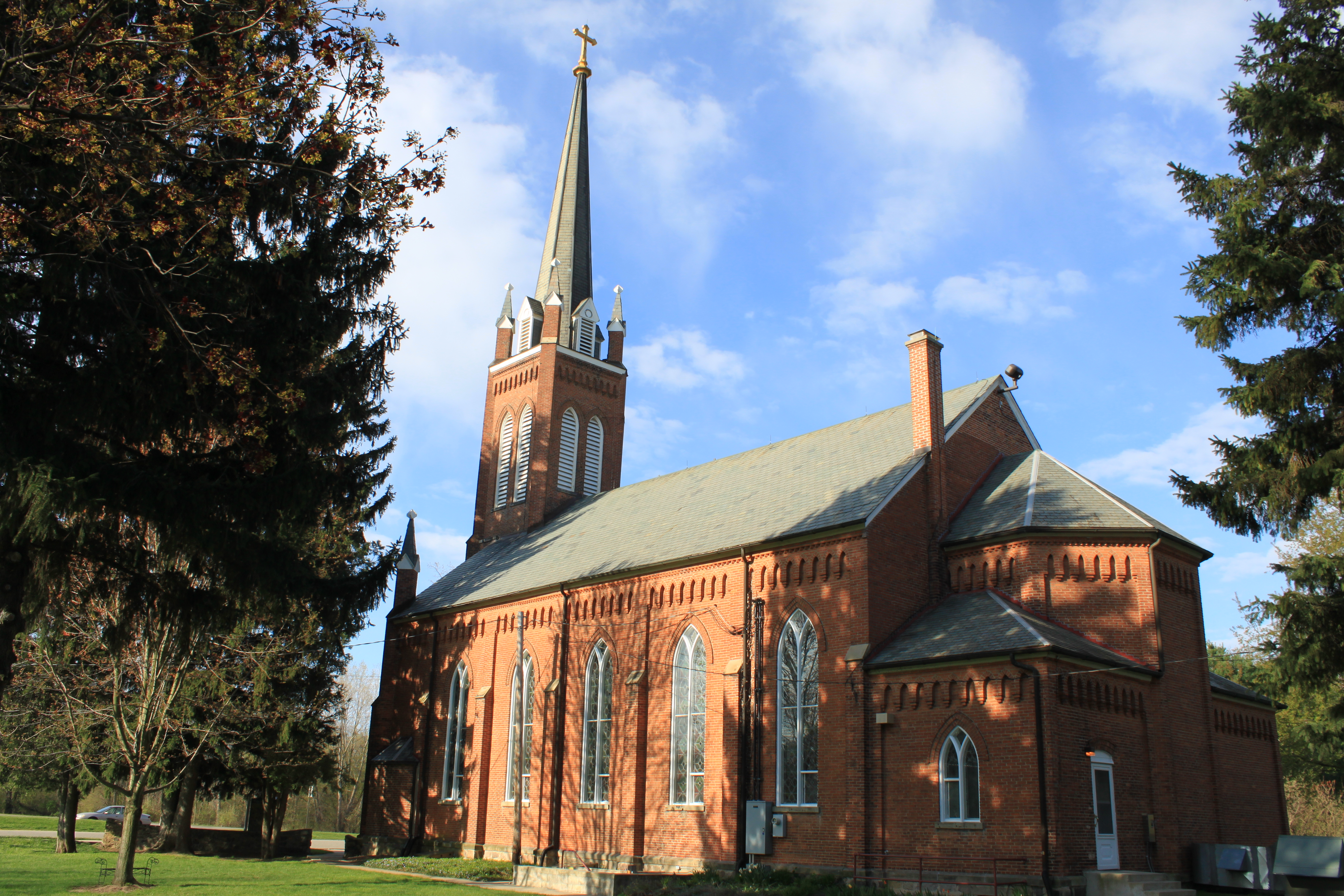 Old Saint Patrick Catholic Church rear view, 5671 Whitmore Lake Road, Northfield Township (Ann Arbor), Michigan. The church is a Registered Michigan Historic Site and was constructed in 1878.